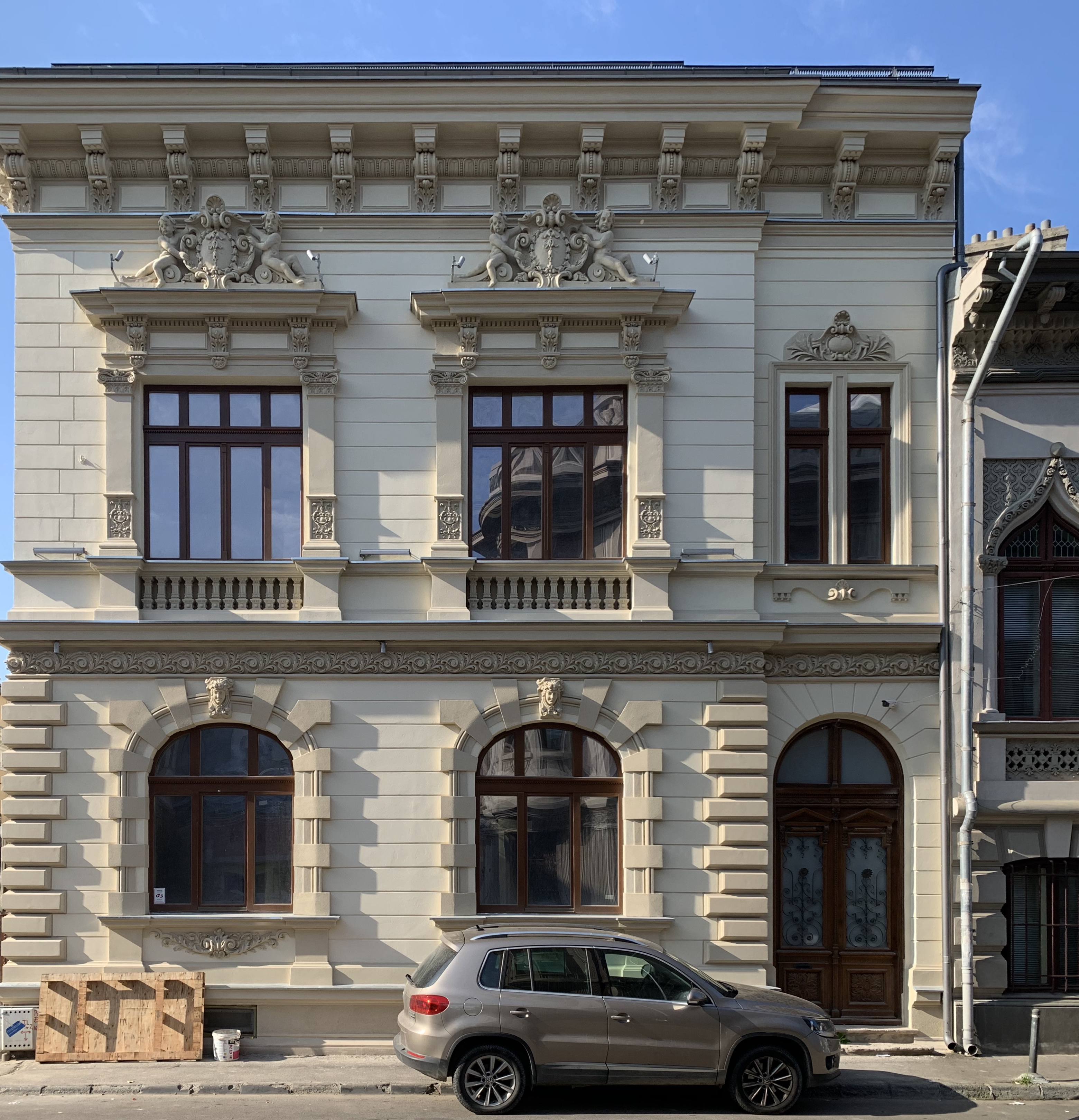 9, Strada Spătarului, Bucharest (Romania). The garden of the house in in the left side of the picture. I cut it because the house was in process of renovating when I took the photo, and instead of a gate or fence, were just some wood panels